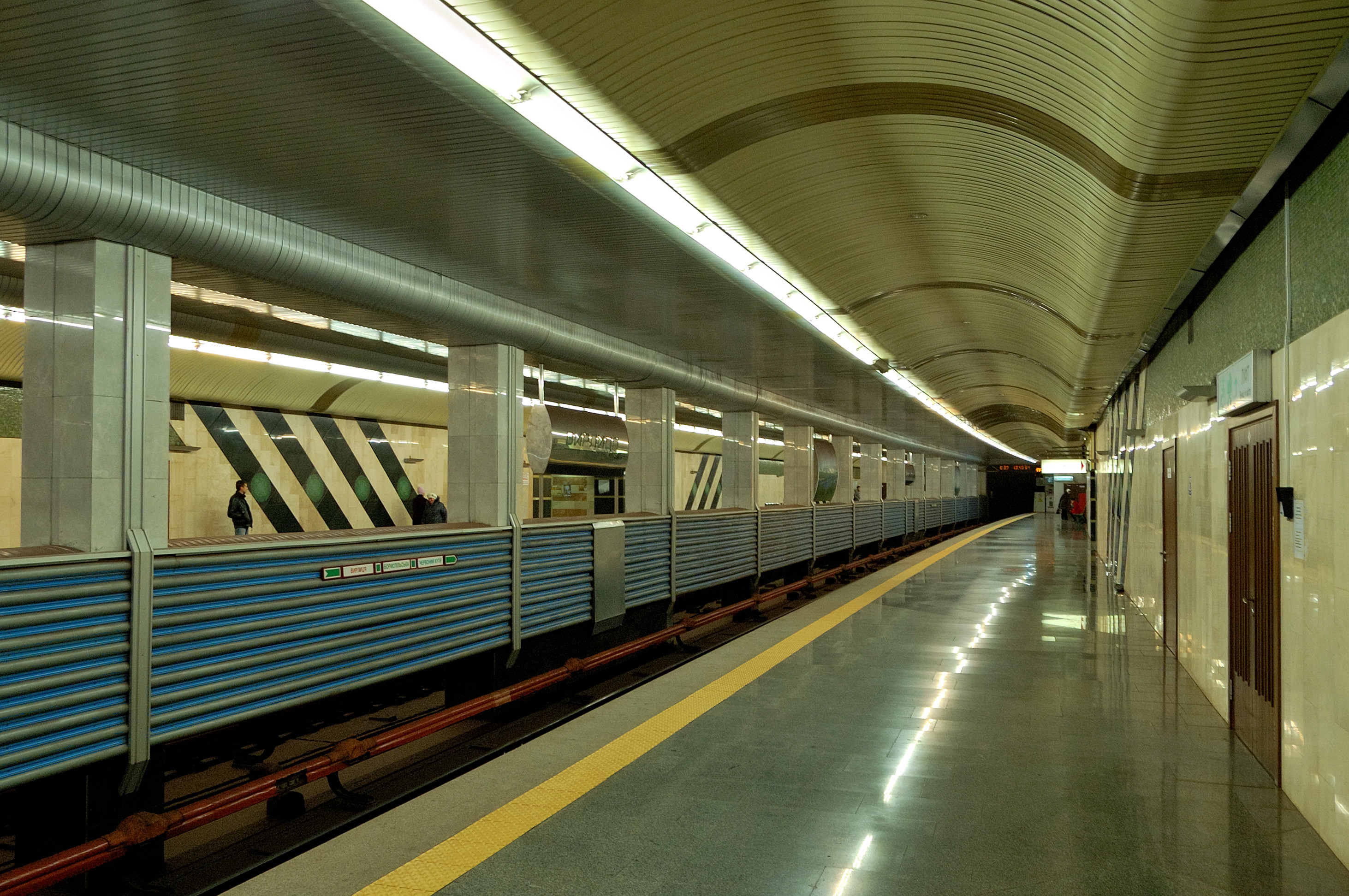 Vyrlytsia Metro Station